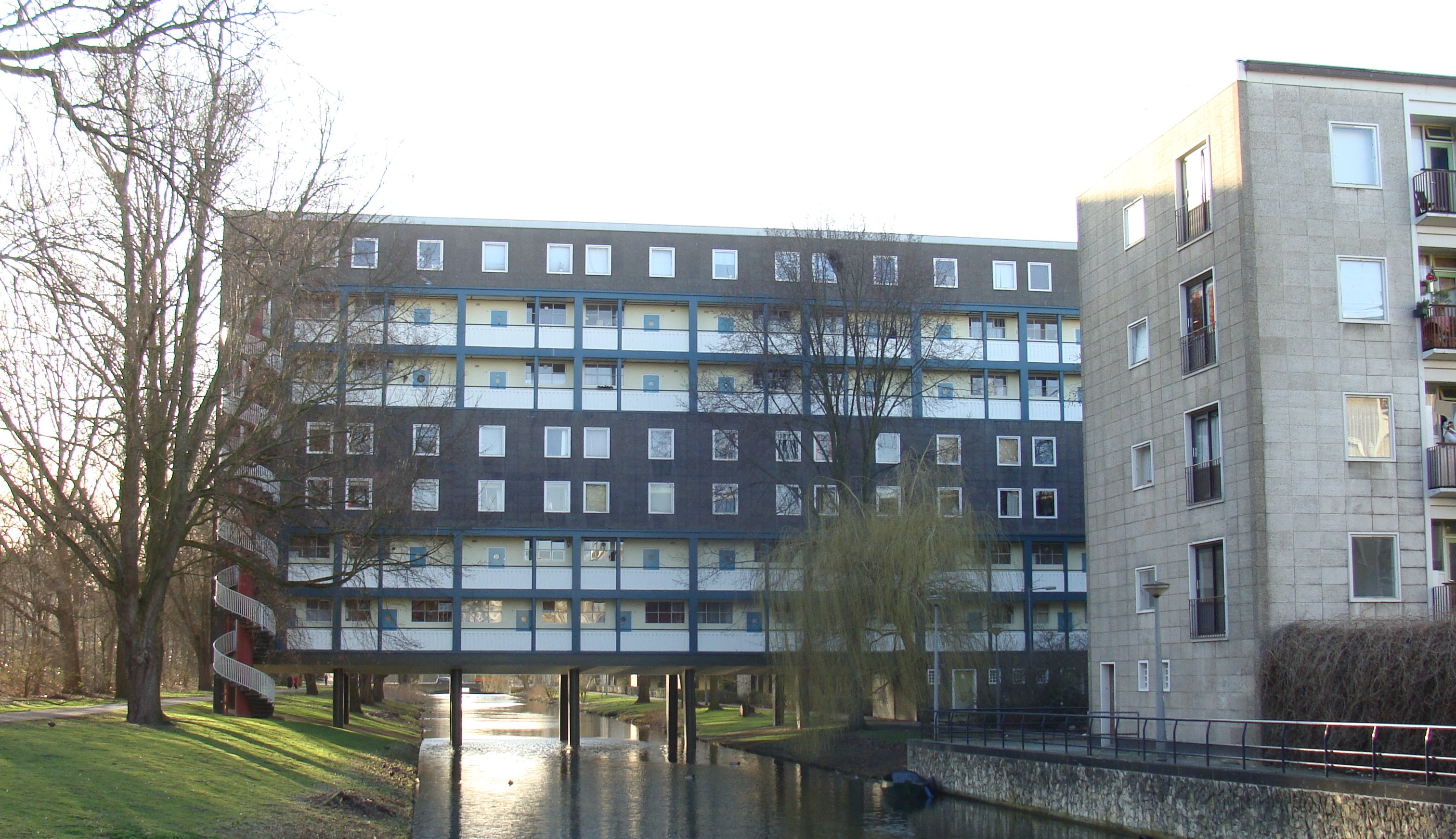 One of the high-rise blocks of the Sloterhof, a privately owned housing project in Amsterdam-Slotervaart. Designed by "Delftse school" architect prof. J.F. Berghoef and built in the late 1950s, it is a prime example of a Dutch post-war housing project. It was built using the "Nemavo-Airey" system that uses pre-fabricated elements of wood, steel and concrete.